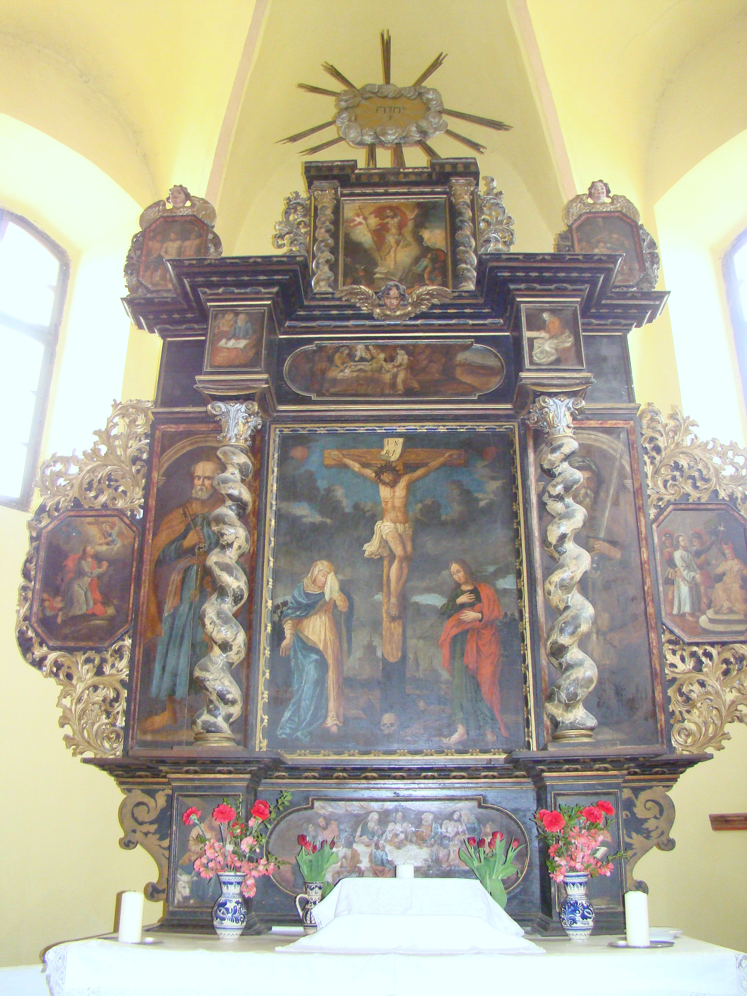 Lutheran church in Seleuș (Daneș), Mureș county, Romania